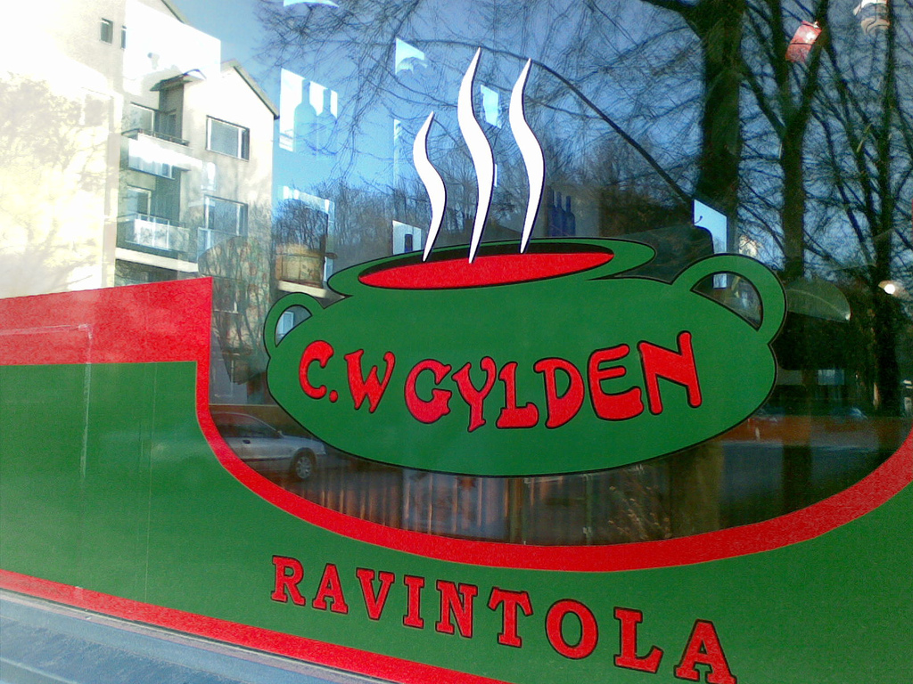 Restaurant in Lauttasaari, Helsinki